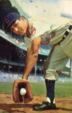 Cleveland Indians second baseman Bobby Ávila.